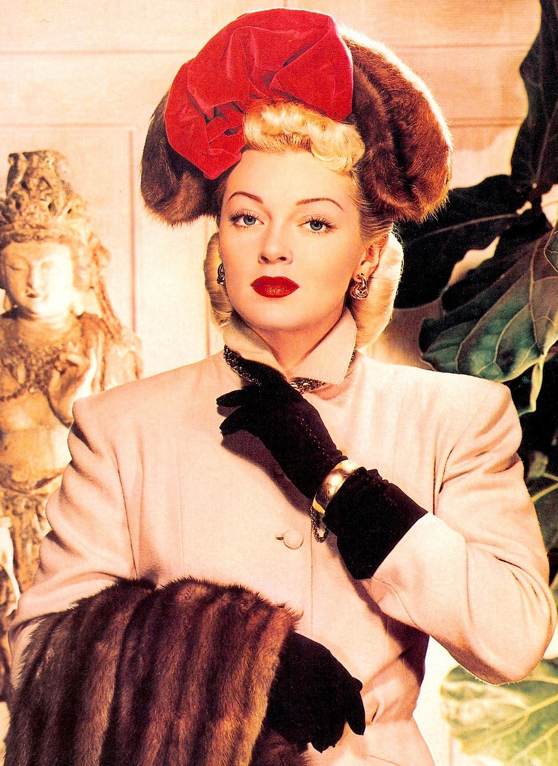 Lana Turner by Paul Hesse, as appeared on the cover of Photoplay in October 1946